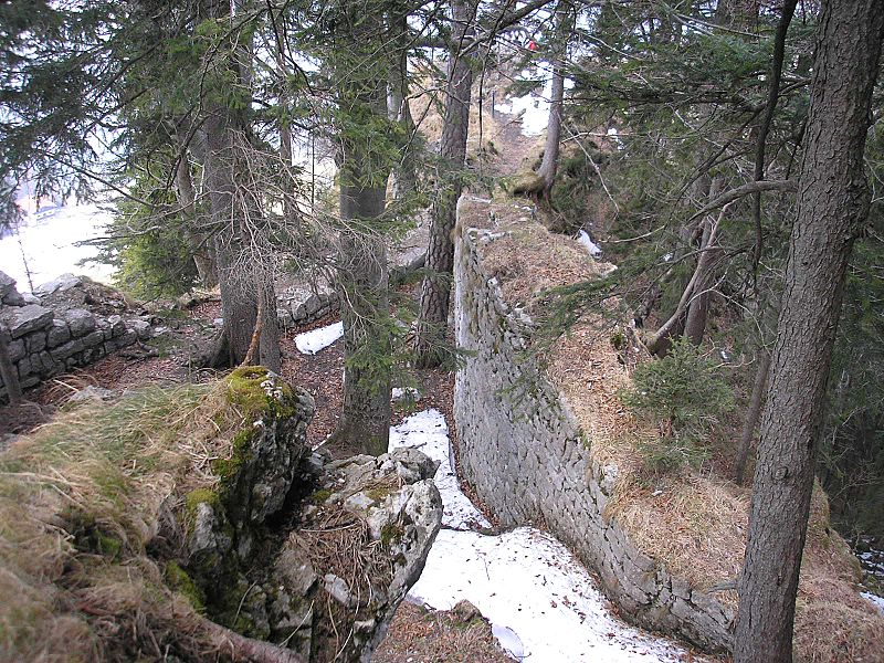 Hohenwaldeck castle (Schliersee-Fischhausen, Landkreis Miesbach, Upper Bavaria, Germany). The northern part of the castle ruin